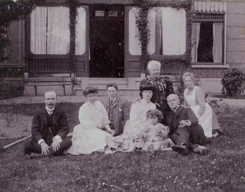 The couple in the garden of their villa van Marken in the park with the children of his late mistress, Maria Eringaard. From left to right: JC Eringaard (son of JC van Marken),Clara Eringaard (daughter of JC van Marken), EJW Eringaard Johanknegt (husband of JC Eringaard), Erry Eringaard A. (son of JC Eringaard) , Agneta WJ van Marken-Matthes, JC van Marken and a name unknown nurse. The correct order of the people is from left to right: Jacob Cornelis Eringaard (son), Clara Eringaard (daughter) with her husband EJW Johanknegt, Erry Anna Eringaard (daughter), Agneta van Marken-Matthes, Jacques van Marken and a nanny by name unknown